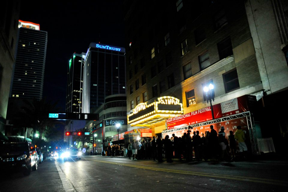 Miami International Film Festival photo